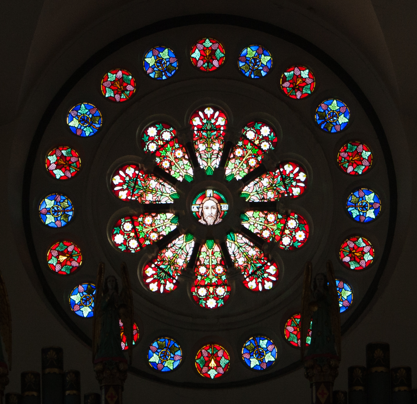 Rose window with Jesus Christ in its centre, as seen from the nave, looking south. Created by Franz Mayer, Munich. Franz Borgias Mayer (1848–1926) Alternative names Mayer, FranzDescriptionGerman stained-glass artistDate of birth/death 1848 1926 Work location Munich Authority control : Q21000395 VIAF: 80993958 GND: 136691900 creator QS:P170,Q21000395